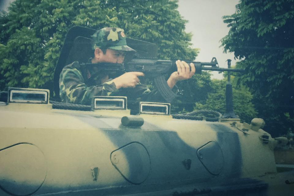 Vietnamese infantry uses a Galil ACE 32 assault rifle on BMP-1.